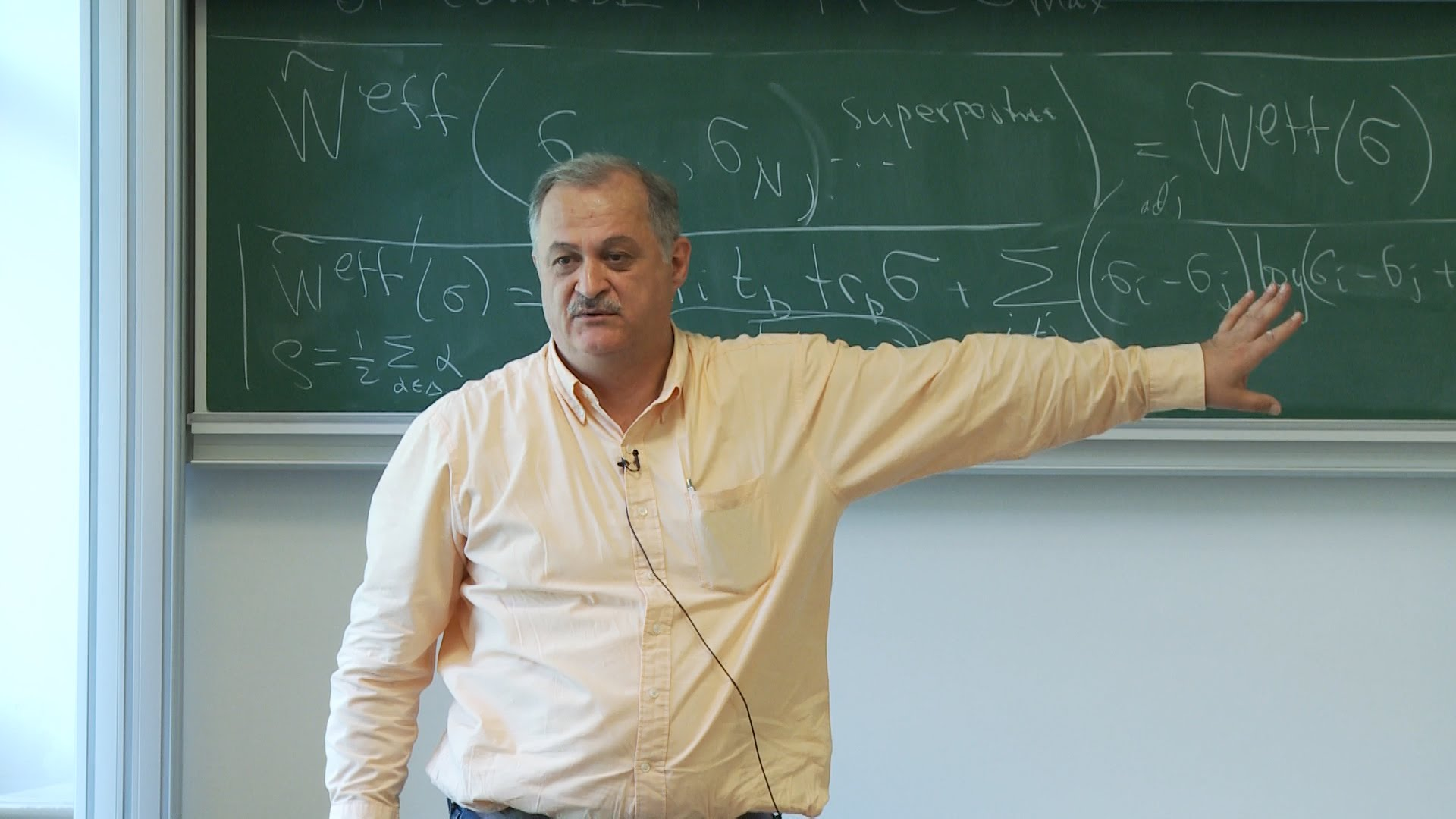 Samson Shatashvili during a lecture at IHÉS